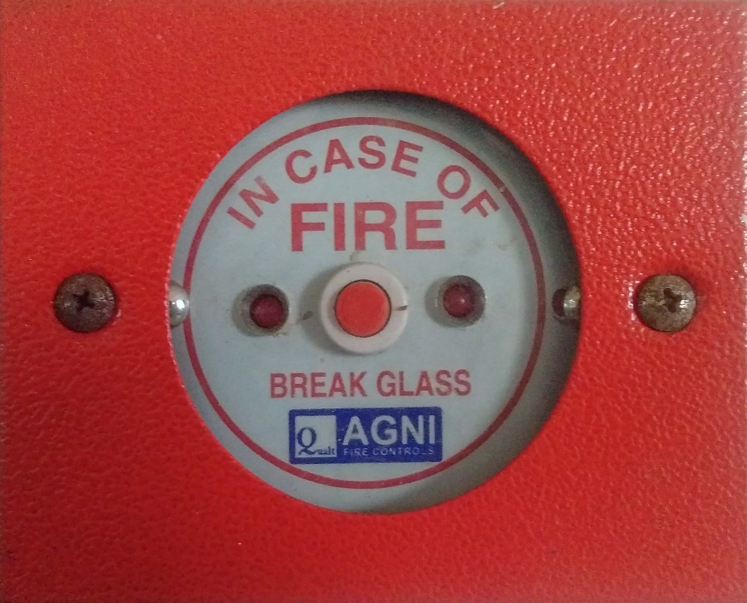 Fire alarm us a part of fixed firefighting systems